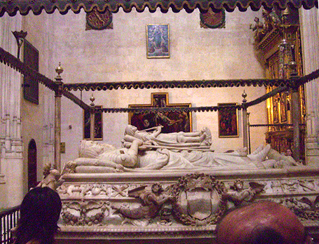 Cenotaph of Catolics Kings and of Joan the Mad and her husband